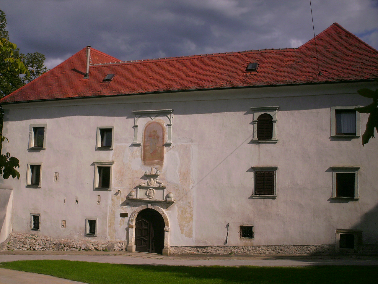 "Farof" vicarage, Slovenske Konjice, Slovenia